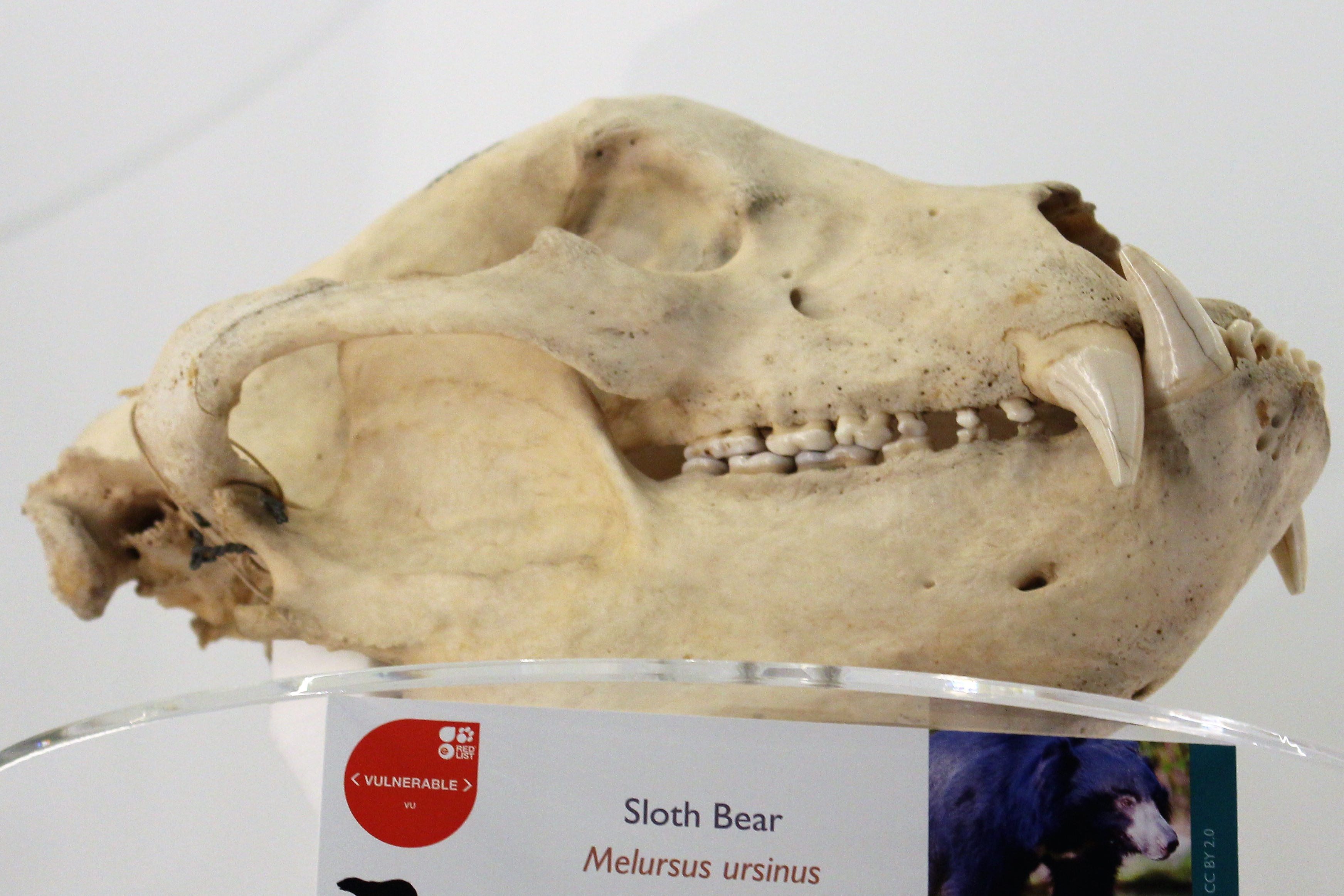 The skull of a sloth bear (Melursus ursinus) at the Cambridge University Museum of Zoology, England.